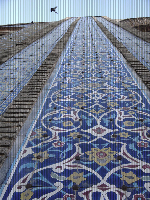 Jame Mosque of Qazvin. 9th century. Iran